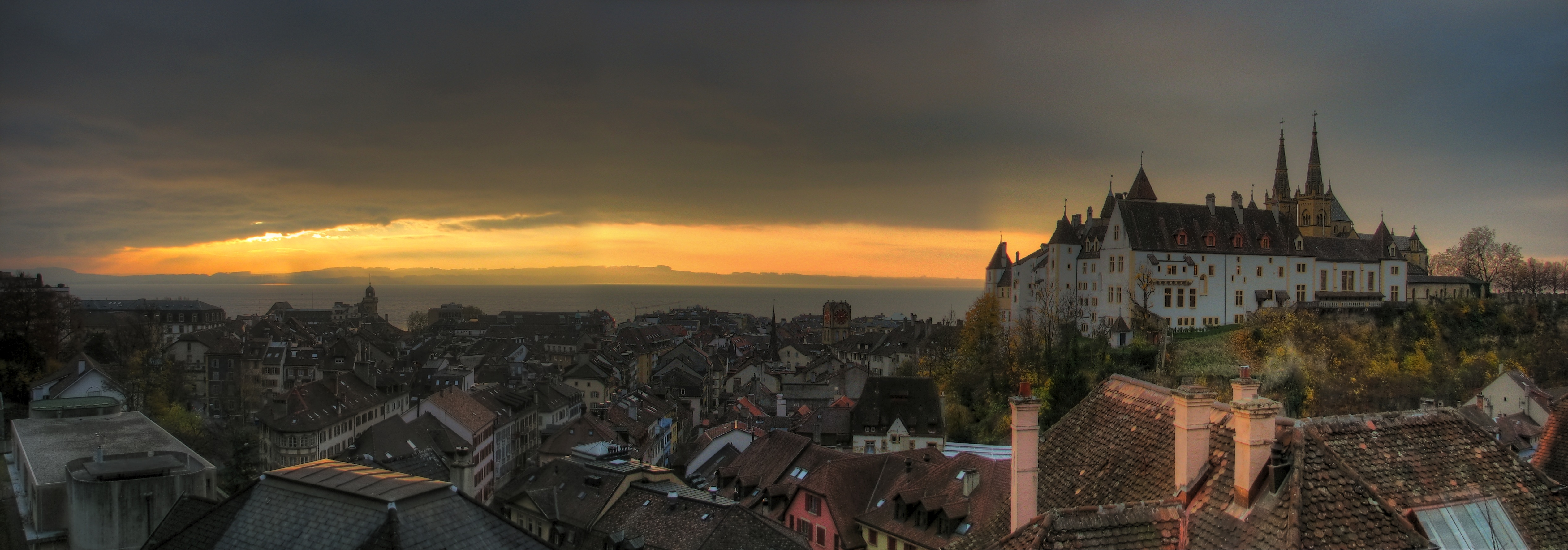 Panorama of city and castle of Neuchâtel. Sunrise